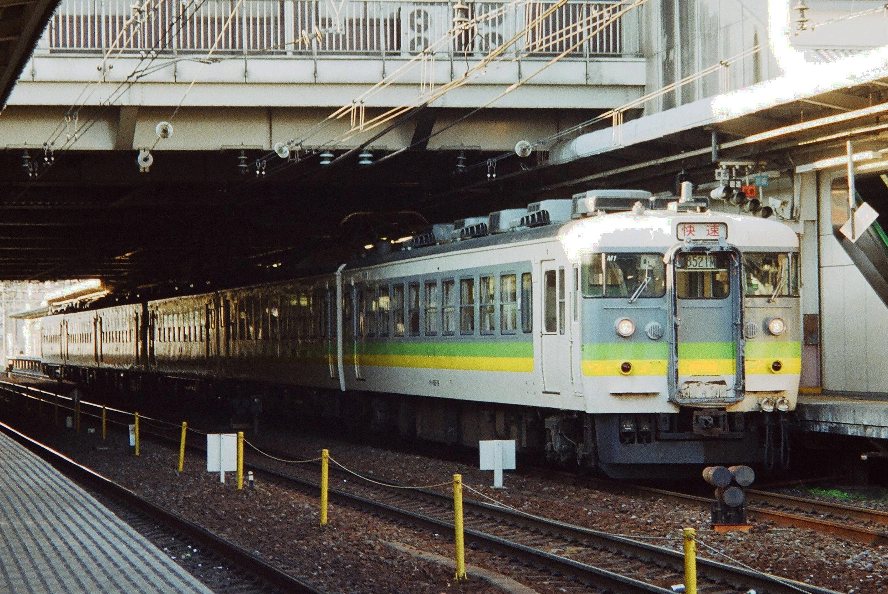 East Japan Railway Rapid Train〝Fairway〟 165 EMU.